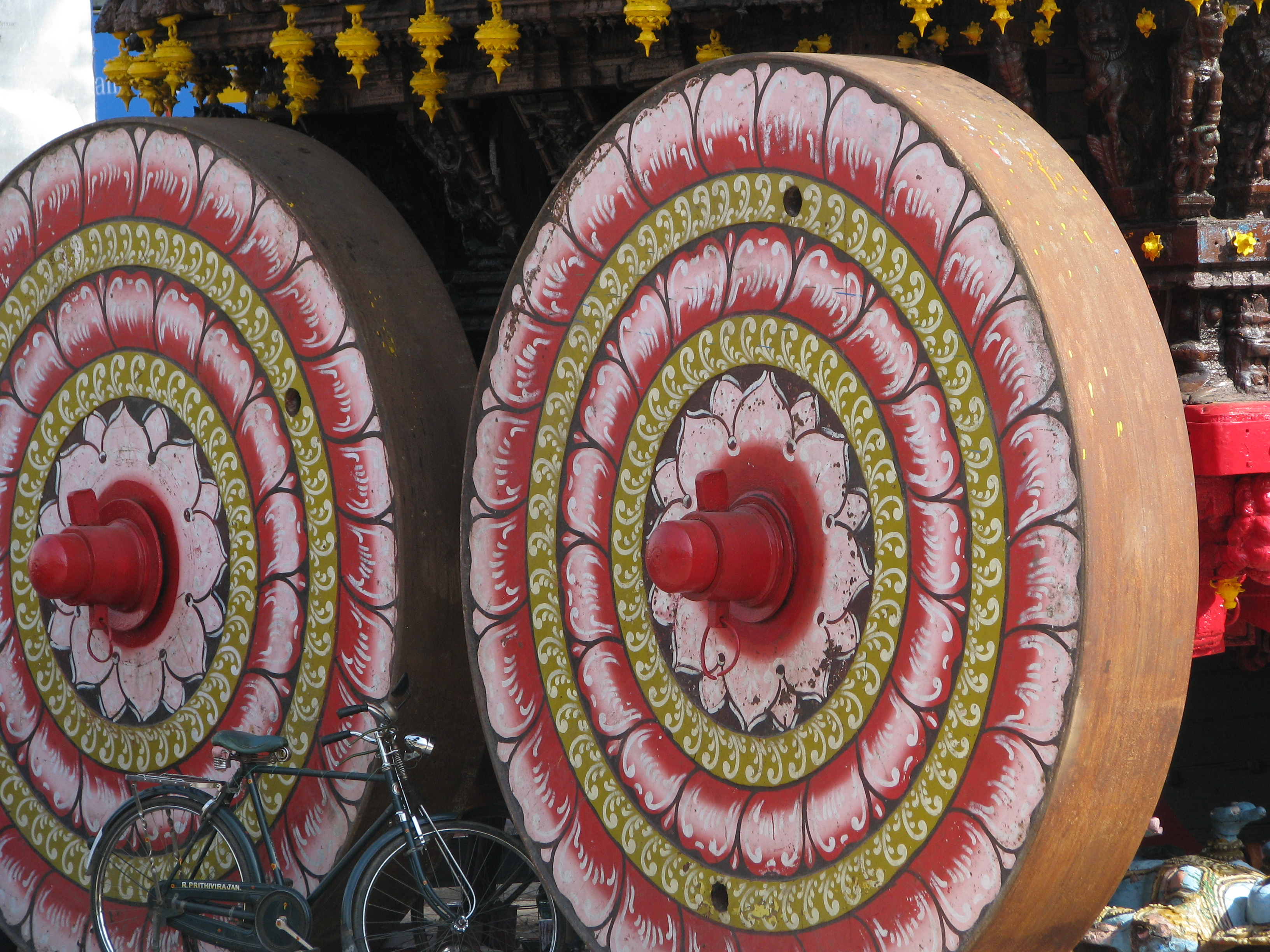 Close-up of chariot, unveiled for upcoming festival in Kanchipuram, India